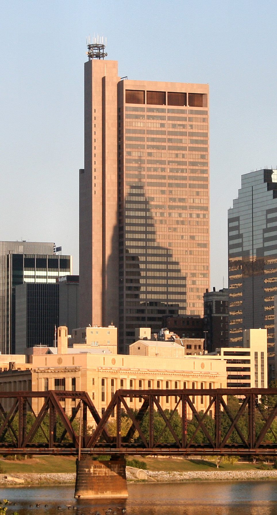 Rhodes State Office Tower in Columbus, Ohio. Photo shot by Derek Jensen (Tysto), 2005-10-25